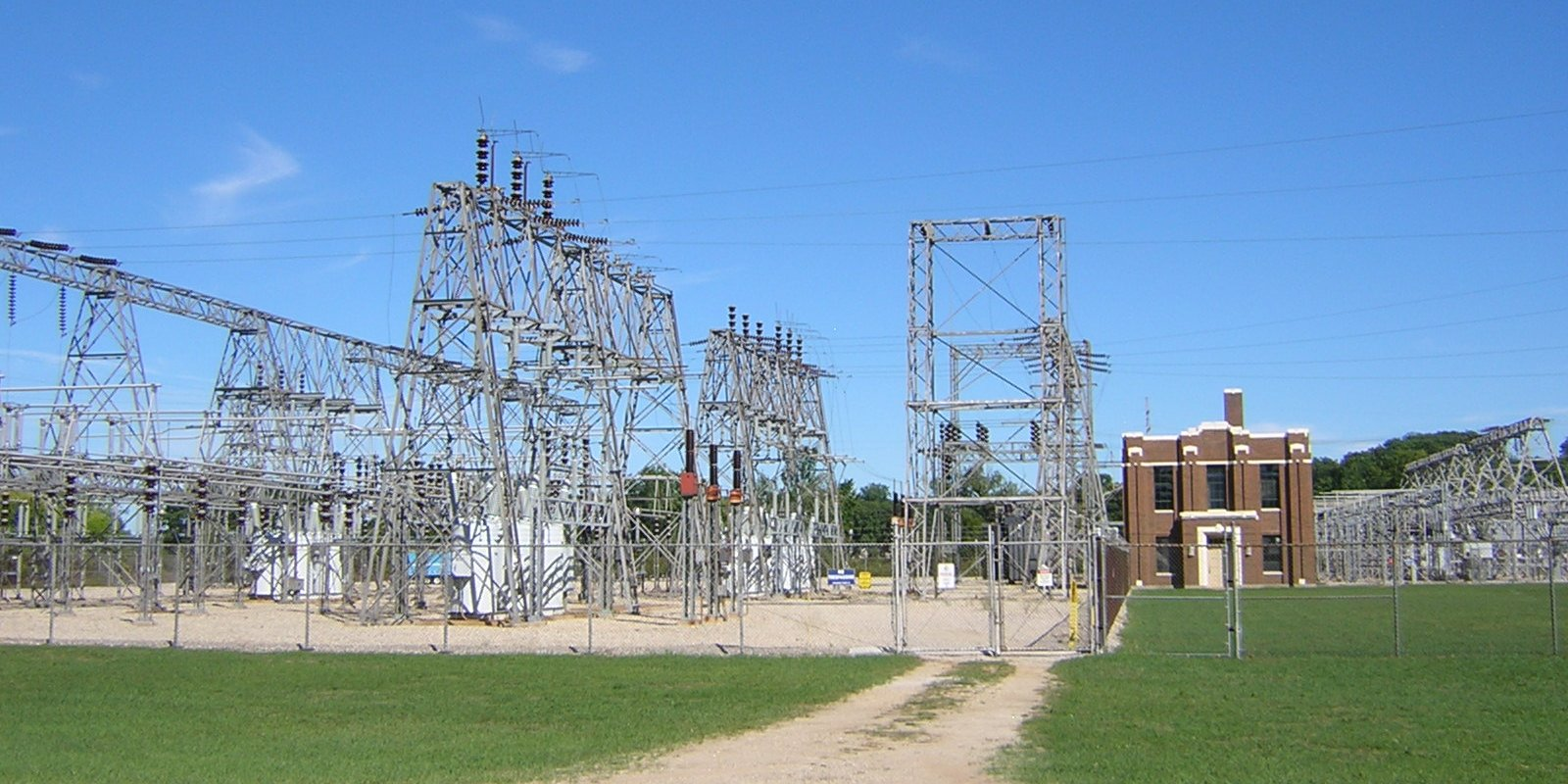 A view of the switchyard of the Croton Dam, a dam and powerplant complex, built 1907, on the Muskegon River in Croton Township, Newaygo County, Michigan. This image is from location F, facing ESE.